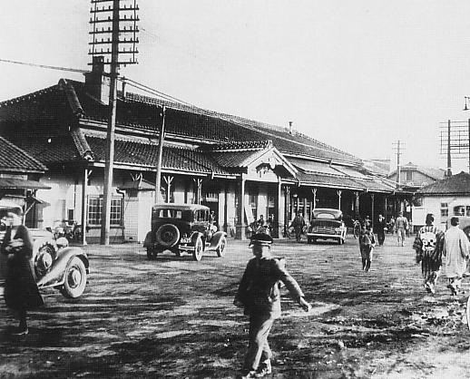 Tosu Station in Pre-war Showa era